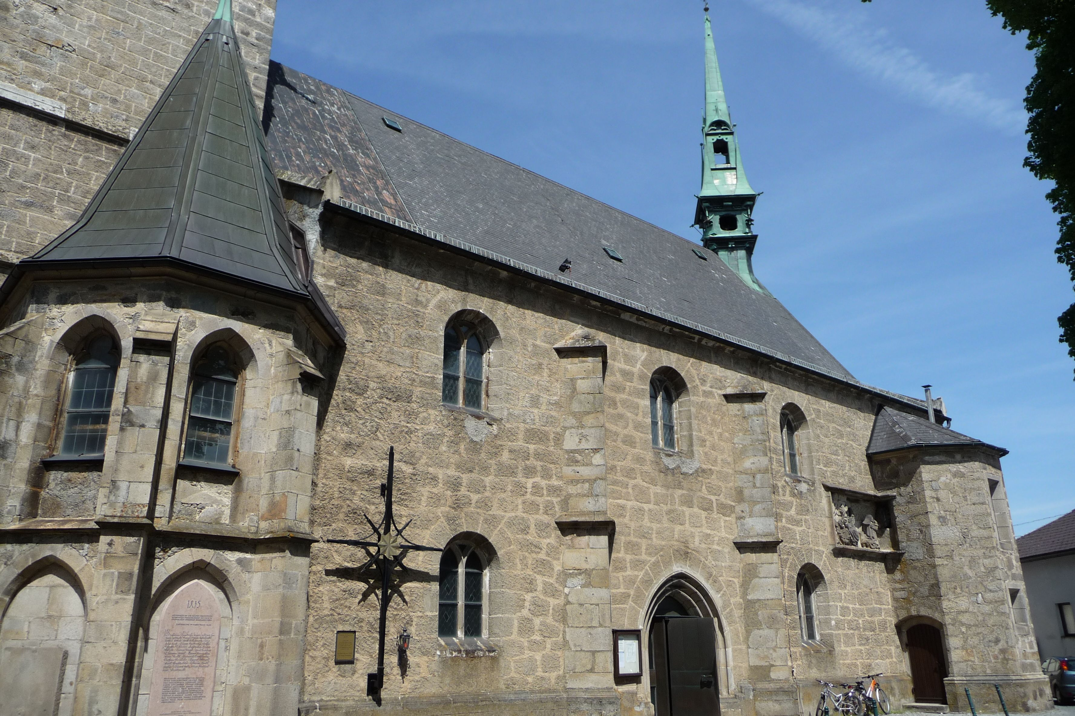 Parish church Bad Leonfelden